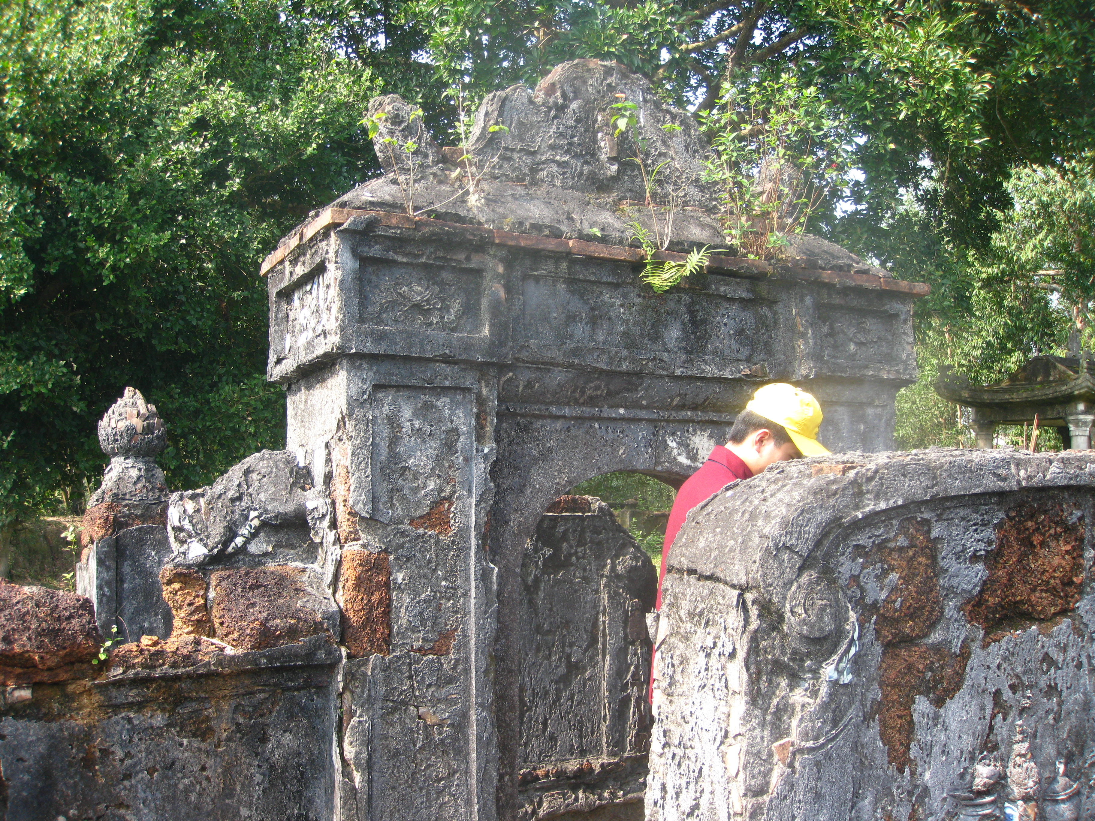 very good